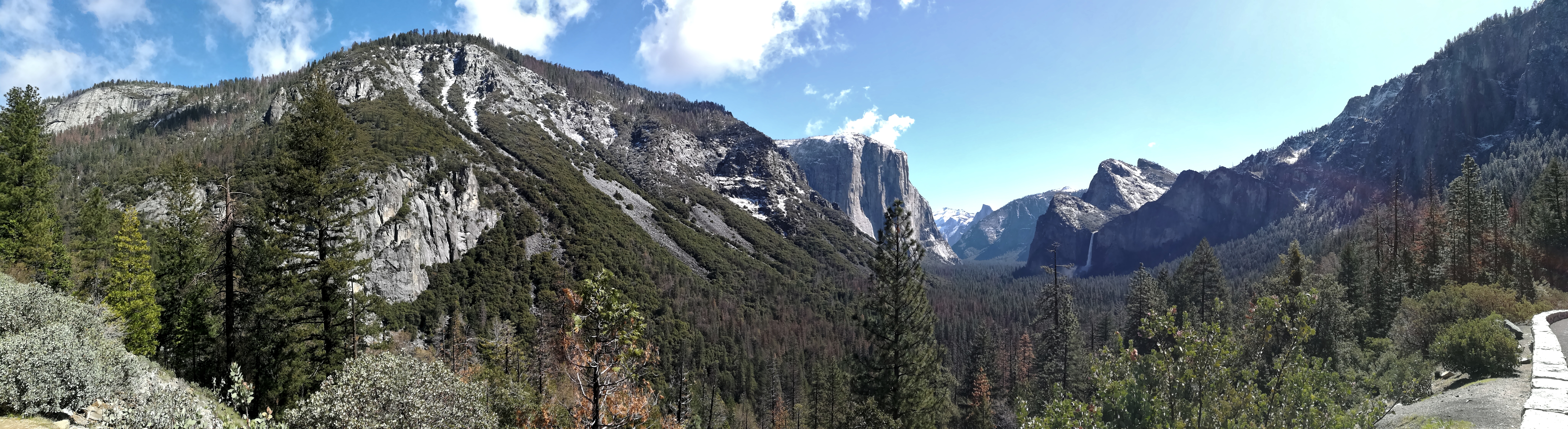 Tunnel View - Panorama